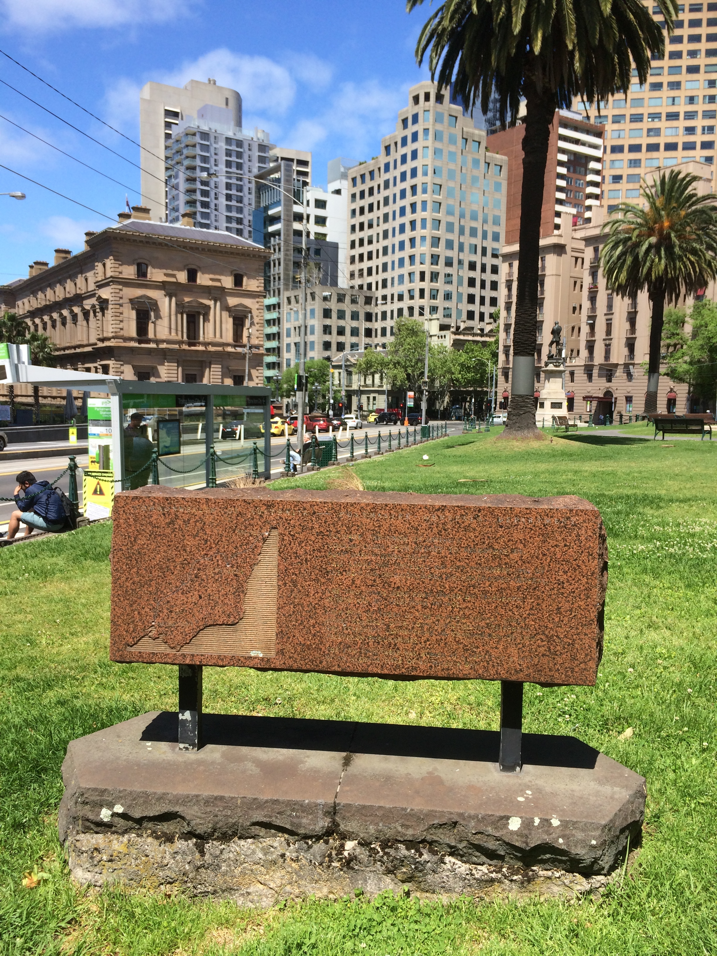 Engraved text: "Australia - Postmaster general Department To mark the finish of laying a coaxial cable from Sydney to Melbourne by Post Office Lines Staff. This stone was unveiled on 10th November 1961 by the Honourable O W Davidson OBE Mp, Postmaster General. The two cities were first linked by telegraph in 1858 and by telephone in 1907. Each pair of tubes of the 6 tube coaxial cable makes possible over 1000 simultaneous telephone or telegraph connections or transmission of two television programmes. The two inch cable was buried at a depth of 4 feet at an average rate of 12 miles a day."